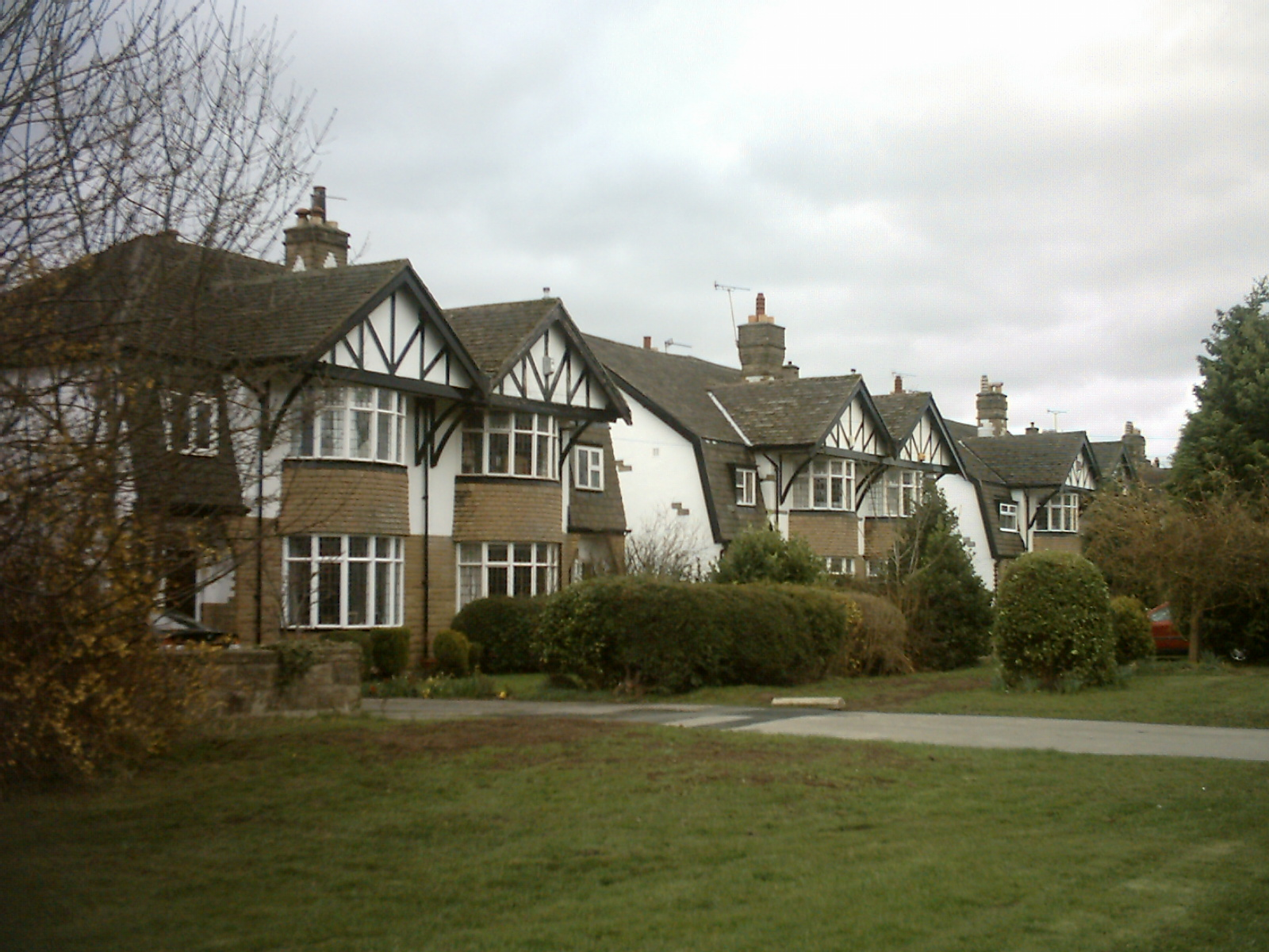 Private semi detatched housing on A660 Otley Road, Lawnswood, Leeds, West Yorkshire, UK